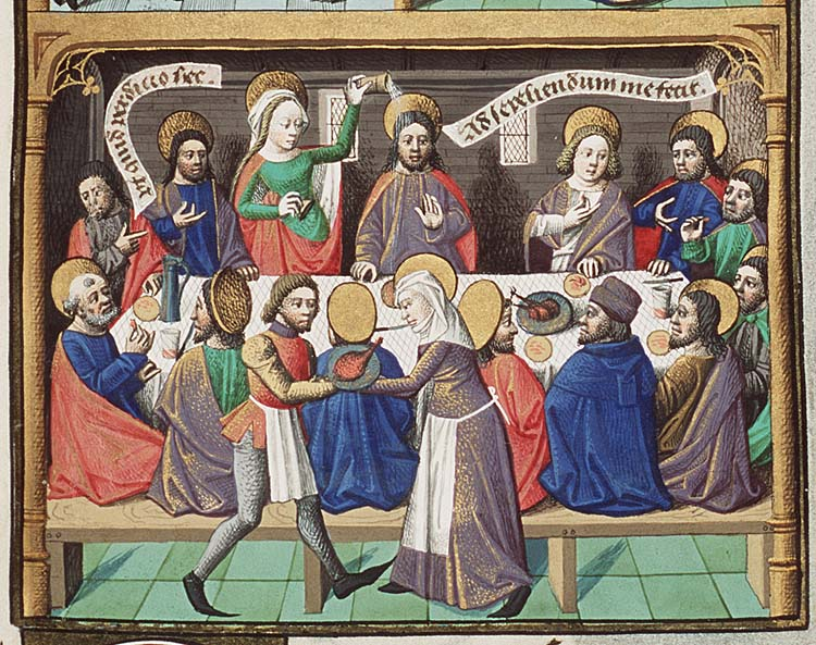 Anointing of Jesus/ From Augustine's "La Cite de Dieu", book I-X